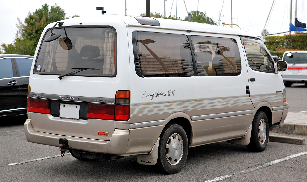 Toyota Hiace Wagon 2.4DT Super Custom Living Sloon EX ( LH100G )